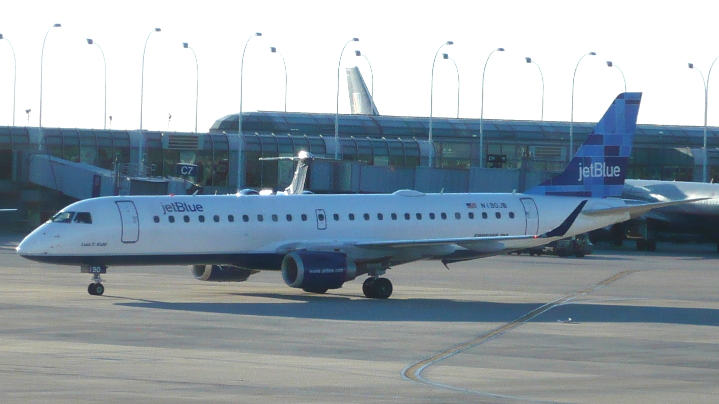 JetBlue Embraer 190